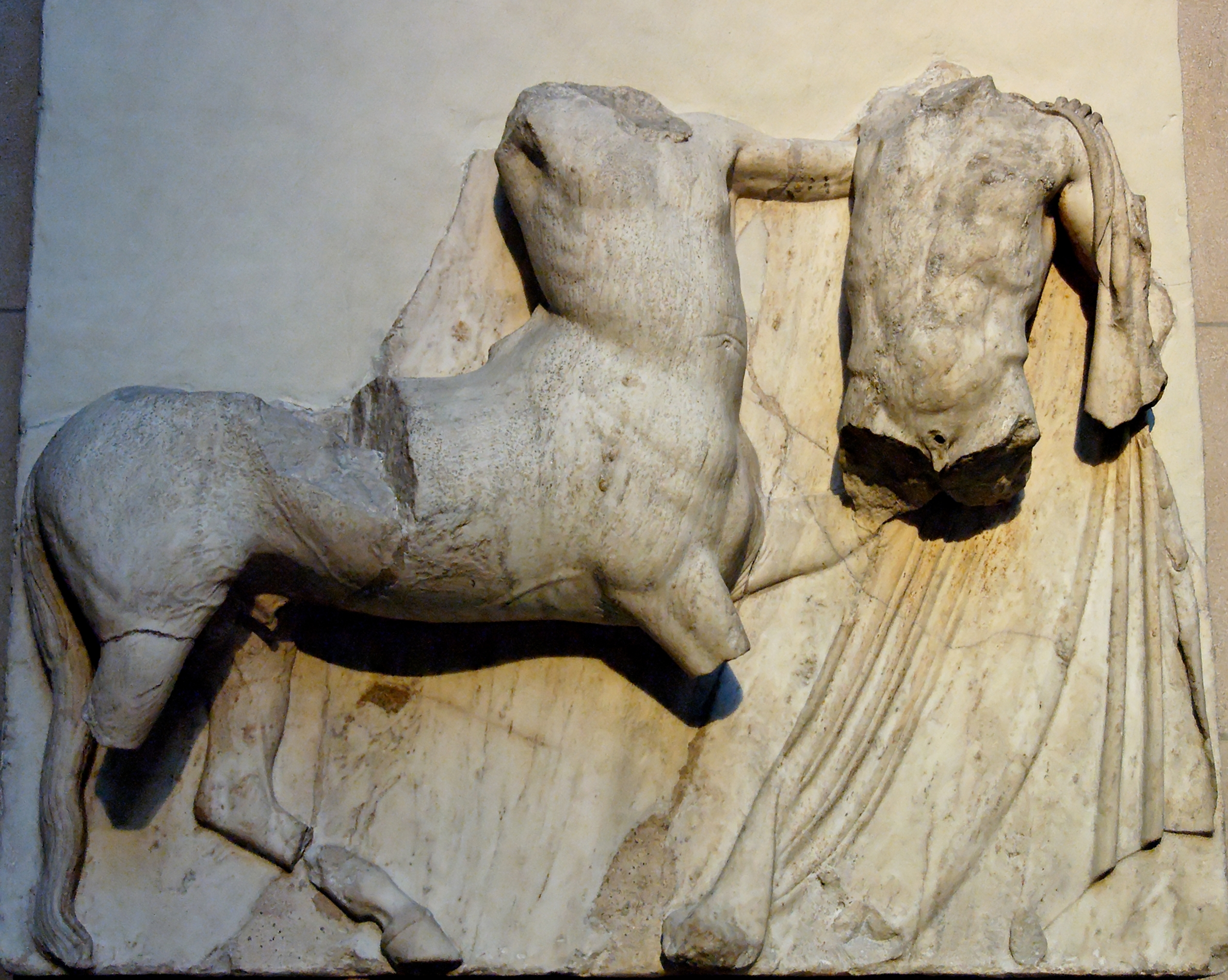 Lapith fighting a centaur. South Metope 6, Parthenon, ca. 447–433 BC.